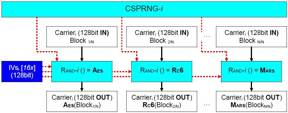 OpenPuff v3.30 Architecture - 4